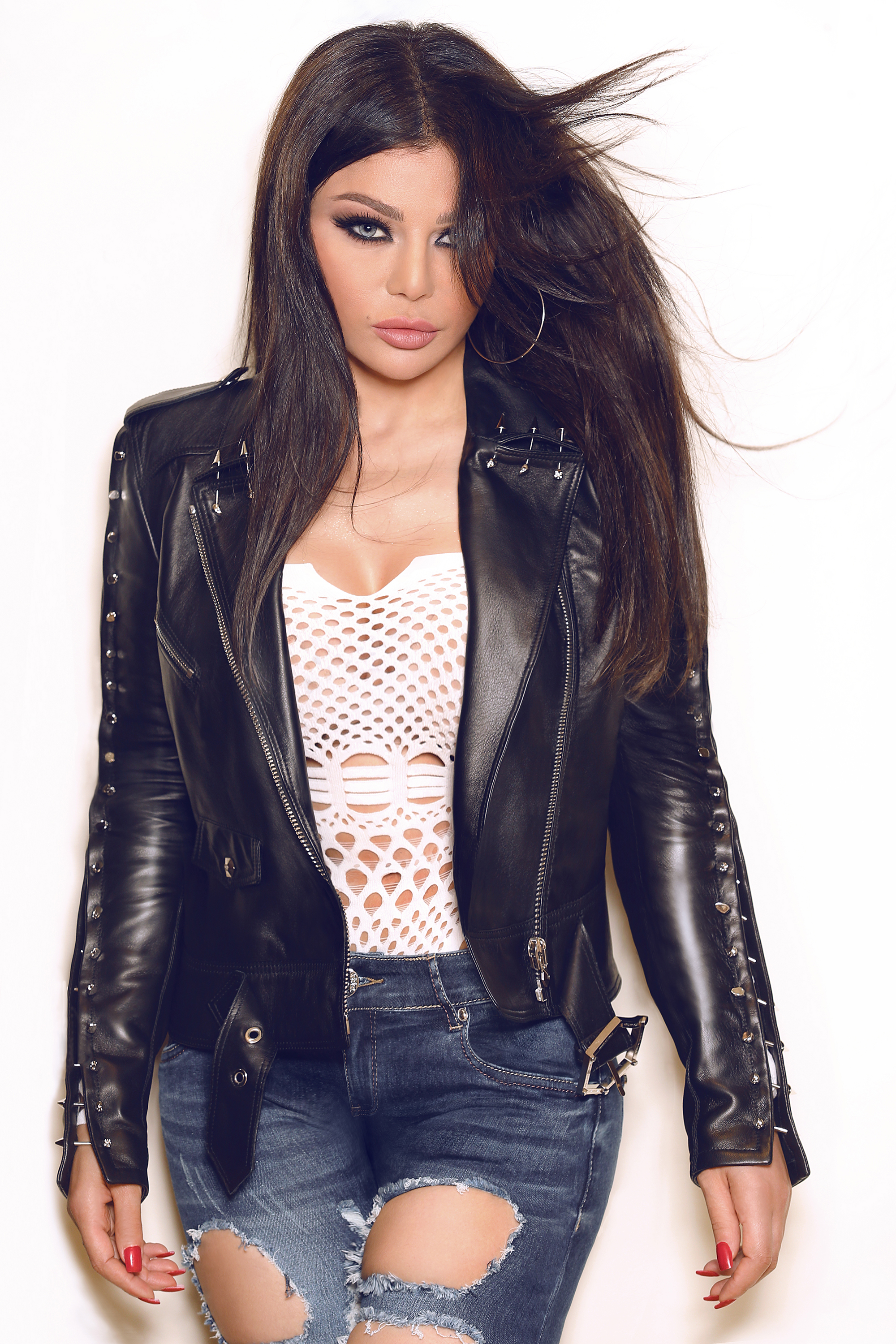 Haifa Wahbe Profile Pic